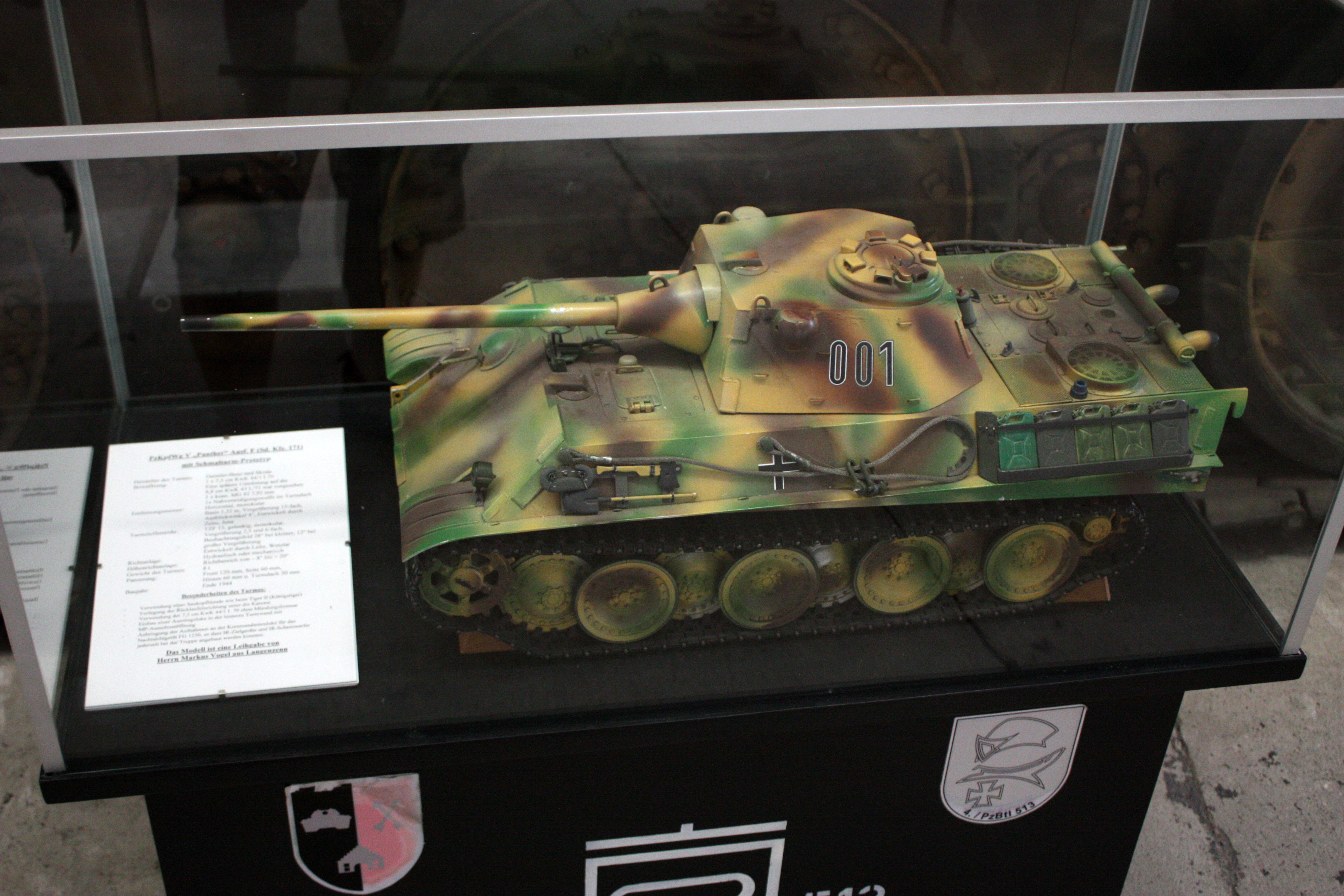 German Tank Museum